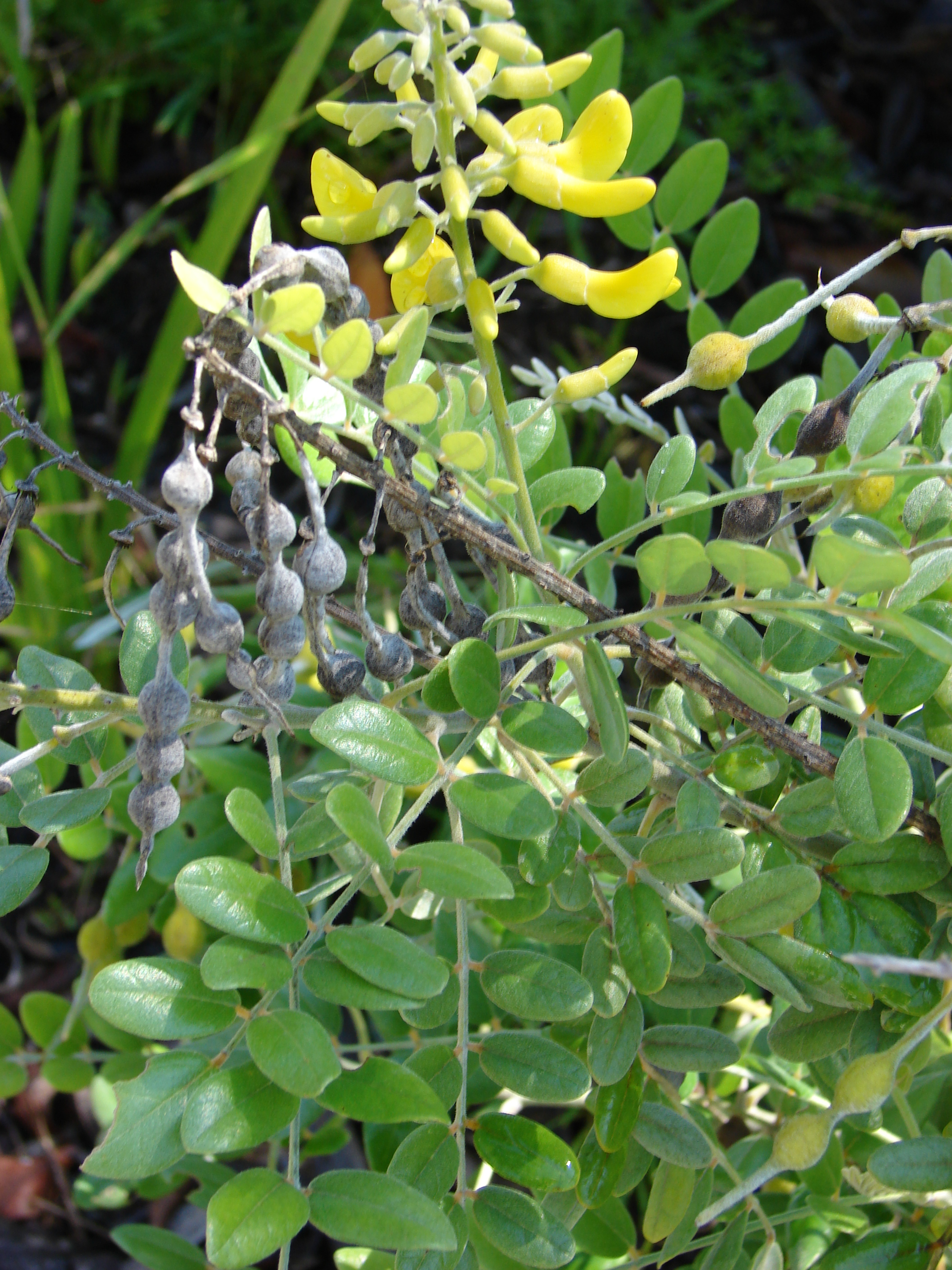 Sophora tomentosa (flowers and leaves). Location: Maui, Enchanting Floral Gardens of Kula